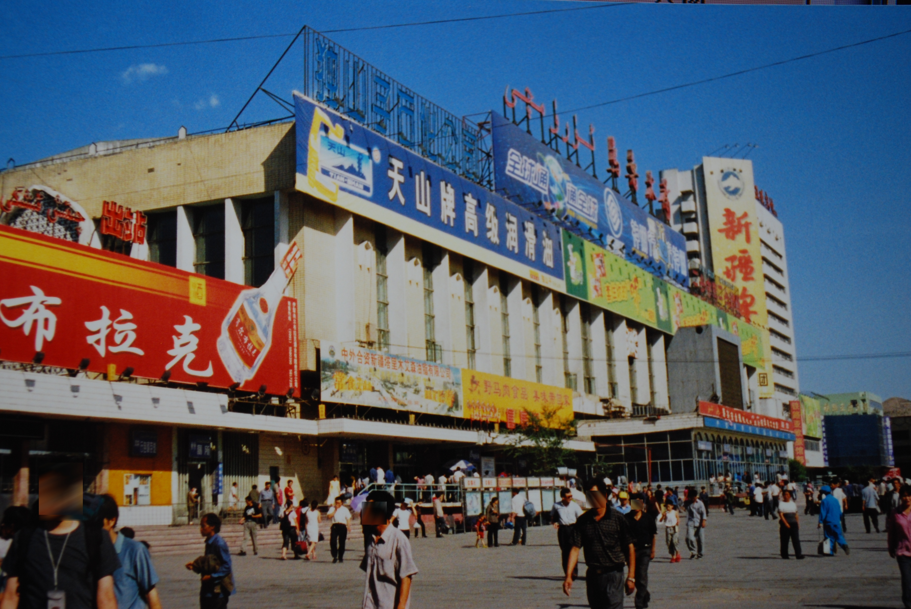 old urumqi sta.,urumqi-city,Xinjiang,china